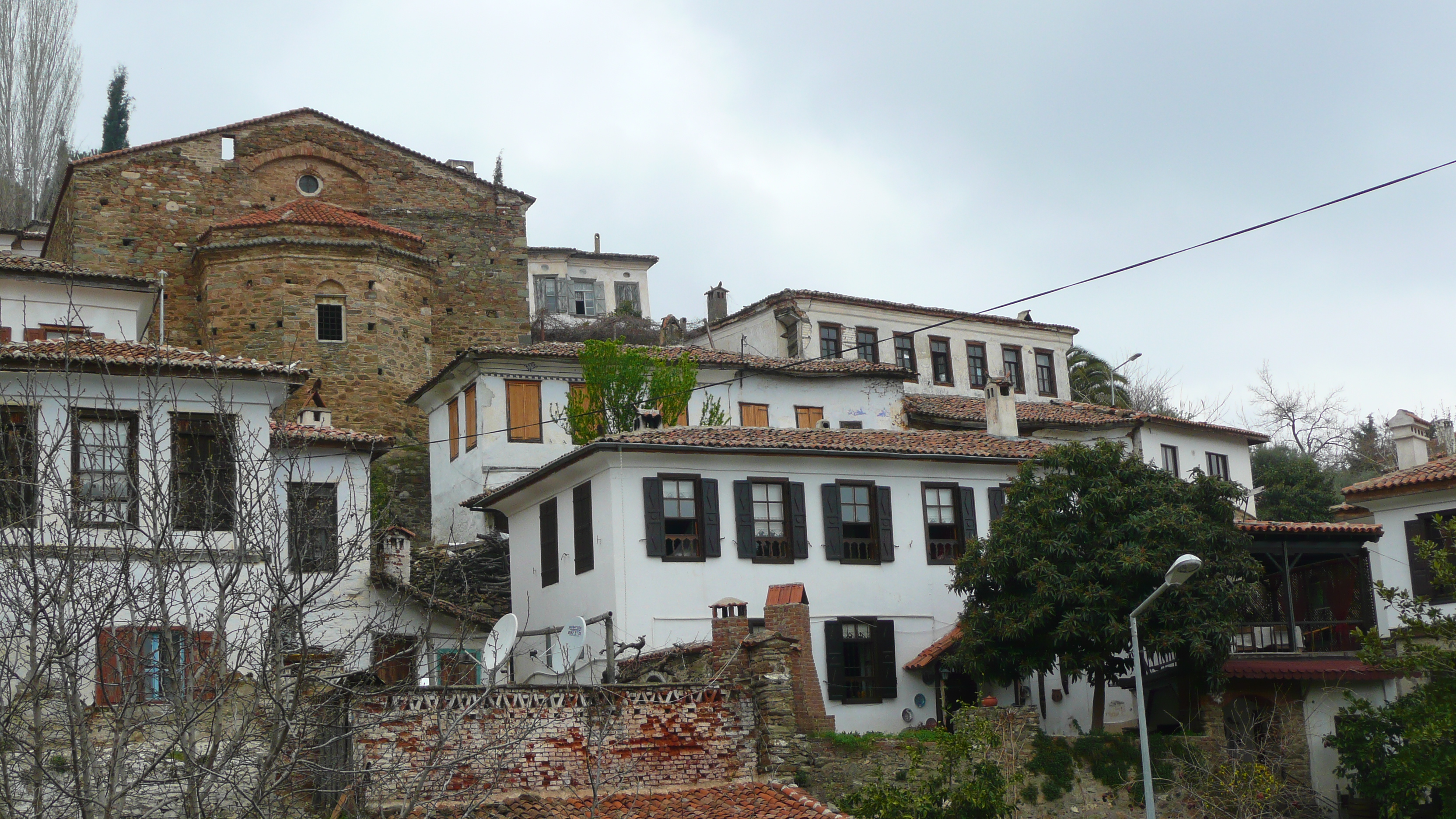 Orthodox Church of St. John the Baptist in Sirince, Izmir, Turkey